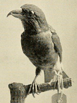 Newfoundland Crossbill (Loxia percna) Depiction from 'A. J. van Rossem: Notes on some Types of North American Birds. Transactions of the San Diego Society of Natural History. 7: 349-361. 1931-1934'